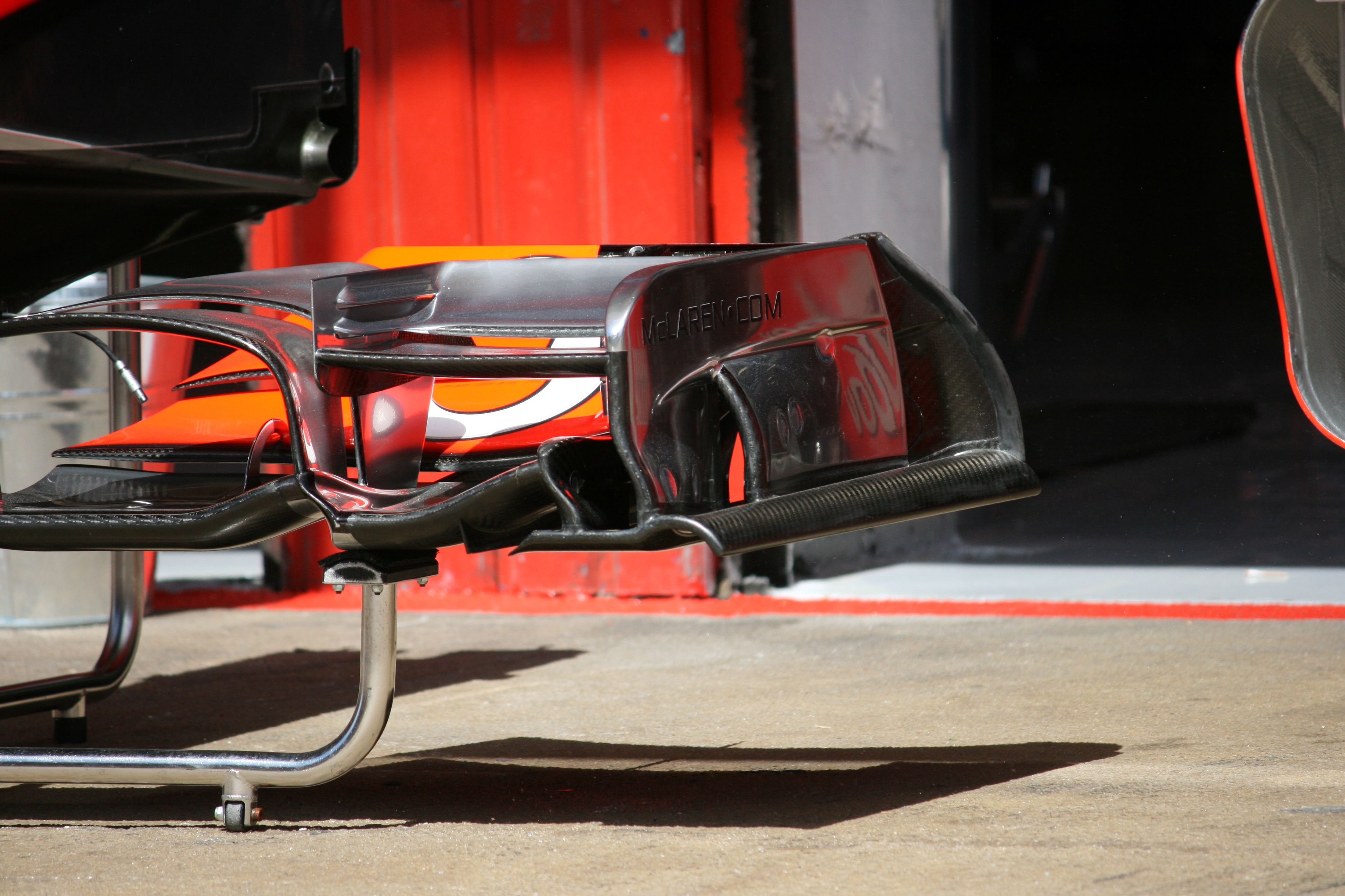 Part of front wing of McLaren MP4-26, version for 2011 Spanish Grand Prix